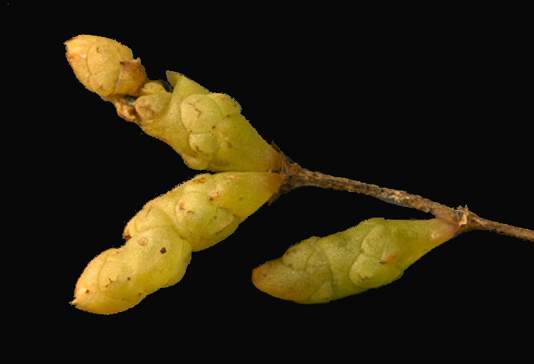 Salicornia bigelovii at Humboldt Bay National Wildlife Refuge Complex, California, USA